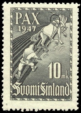 Postage stamp depicting the consequences of the Paris peace treaties for Finland